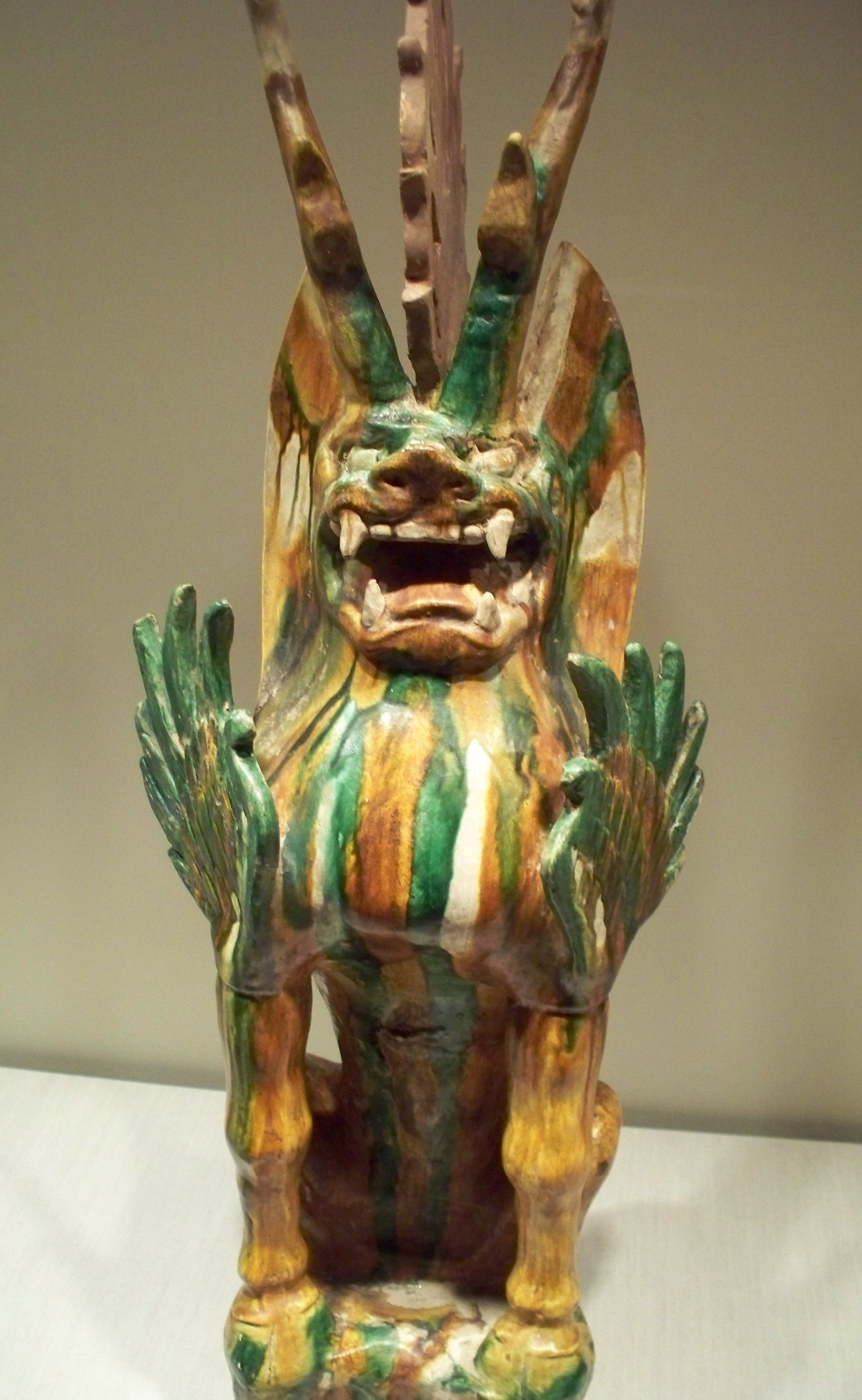 Tomb Guardian Creation date 700s Dynasty Tang dynasty Materials earthenware with lead glaze Dimensions 29 x 12 in. Location Arthur R. & Frances D. Baxter Gallery Credit line Jacob Metzger Fund Accession number 65.120 Wikipedia Loves Art at the Indianapolis Museum of Art This photo of item # 65.120 at the Indianapolis Museum of Art was contributed under the team name "Opal_Art_Seekers_4" as part of the Wikipedia Loves Art project in February 2009. Indianapolis Museum of Art The original photograph on Flickr was taken by Forever Wiser—please add a comment to the original Flickr page whenever a use has been made on Wikipedia or another project. Project galleries on Flickr: this institution, this team